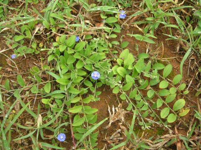 Flower of Evolvulus sp. from Mudumalai, South India